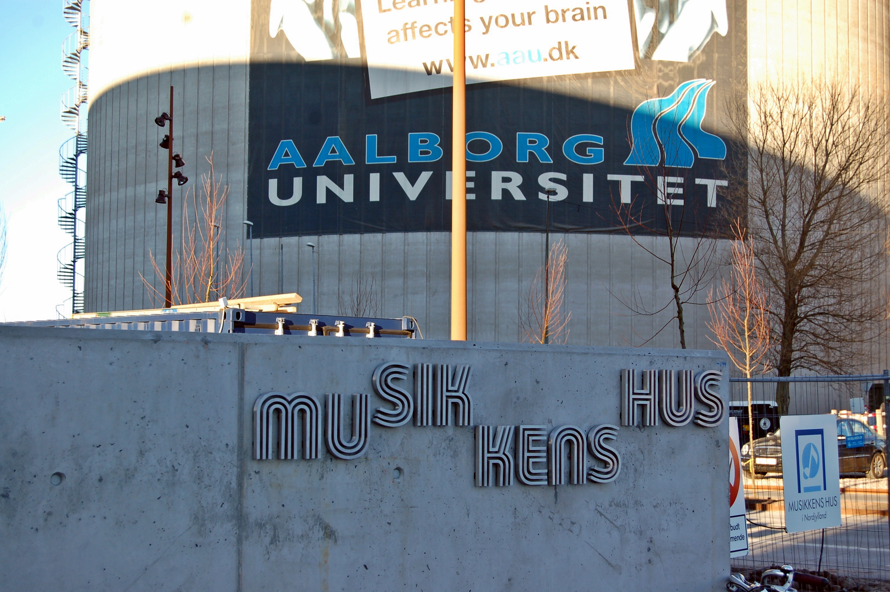 House of Music's logo